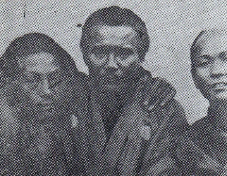 Ssmurai of Aizu Domain,center is Sagawa Kanbei